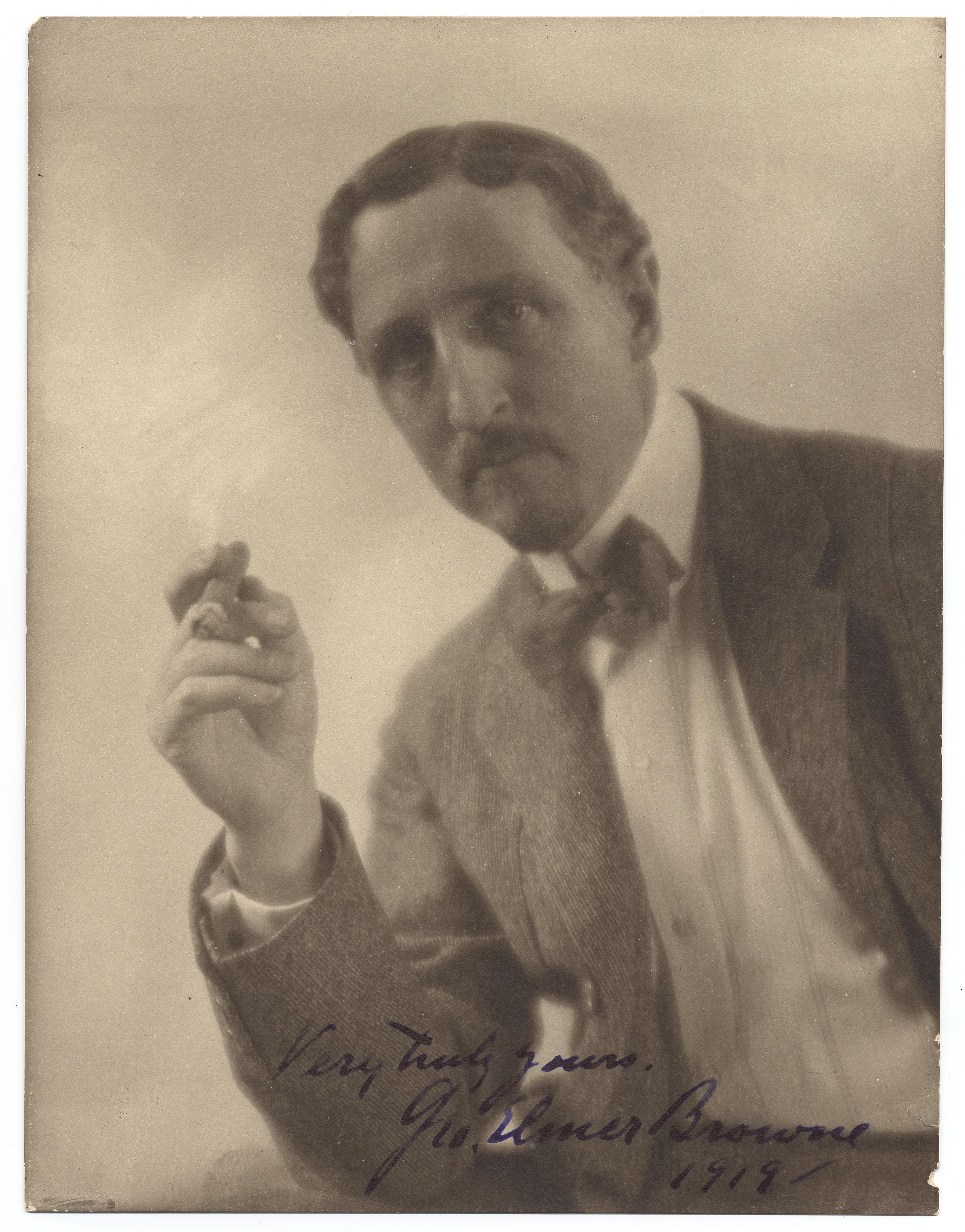 Portrait of George Elmer Browne. Inscribed on lower right: "Very Truly Yours, Geo. Elmer Browne, 1919". Browne, George Elmer, 1871-1946 Creator/Photographer: Unidentified photographer Medium: Black and white photographic print Dimensions: 21 cm x 15 cm Date: 1919 Persistent URL: Repository: Archives of American Art Native nameArchives of American ArtParent institutionSmithsonian InstitutionLocationWashington, D.C.Coordinates38° 53′ 52.44″ N, 77° 01′ 21.72″ W Established1954Web page control : Q2860568 VIAF: 151134814 ISNI: 0000 0001 2185 0758 LCCN: n79065944 NLA: 35007823 GND: 1085306631 WorldCat Collection: Macbeth Gallery Records, c. 1890-1964 Accession number: aaa_macbgall_4639